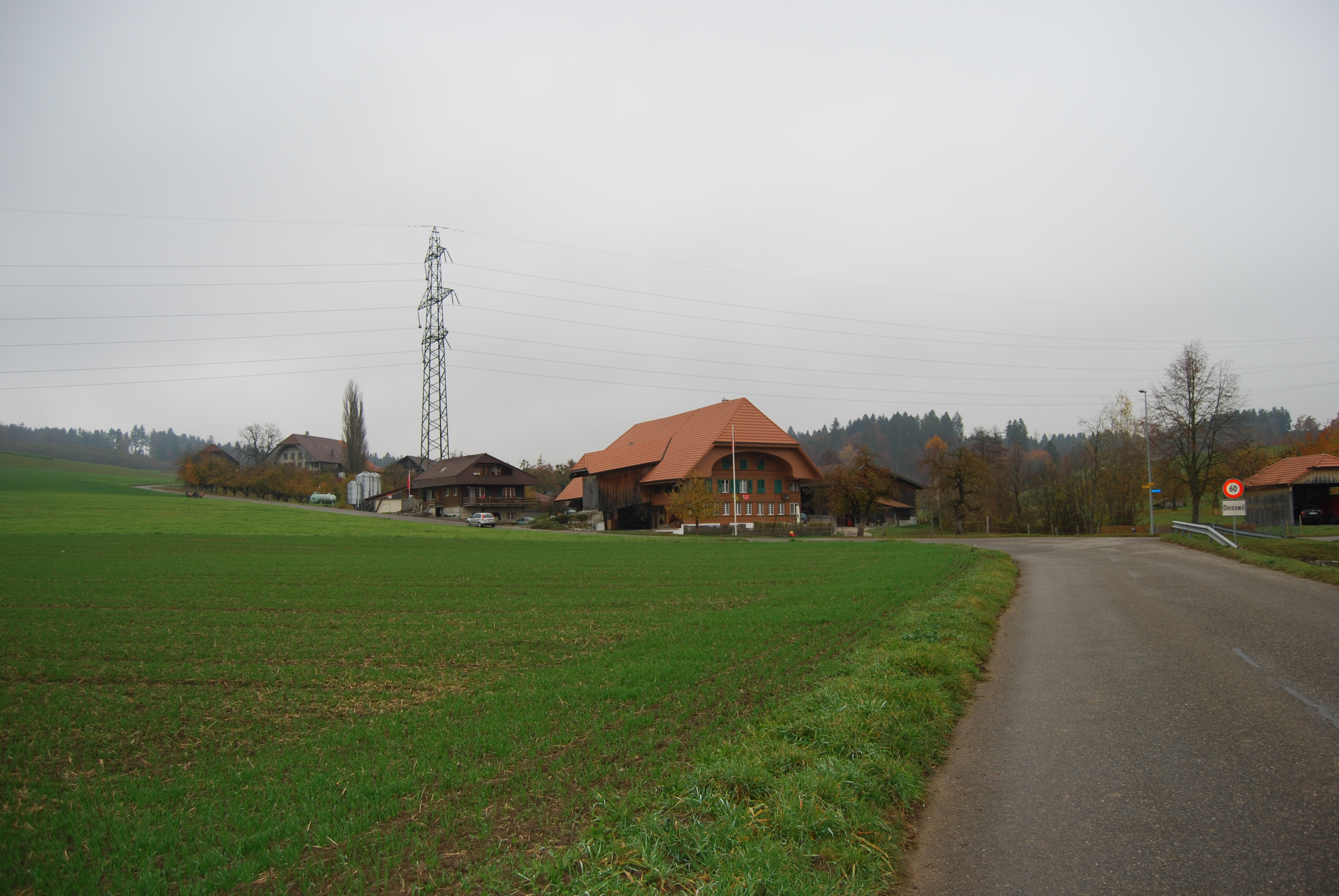 Deisswil bei Münchenbuchsee, canton of Bern, SwitzerlandEsperanto: Deisswil ĉe Münchenbuchsee, KantonoBerno, Svislando